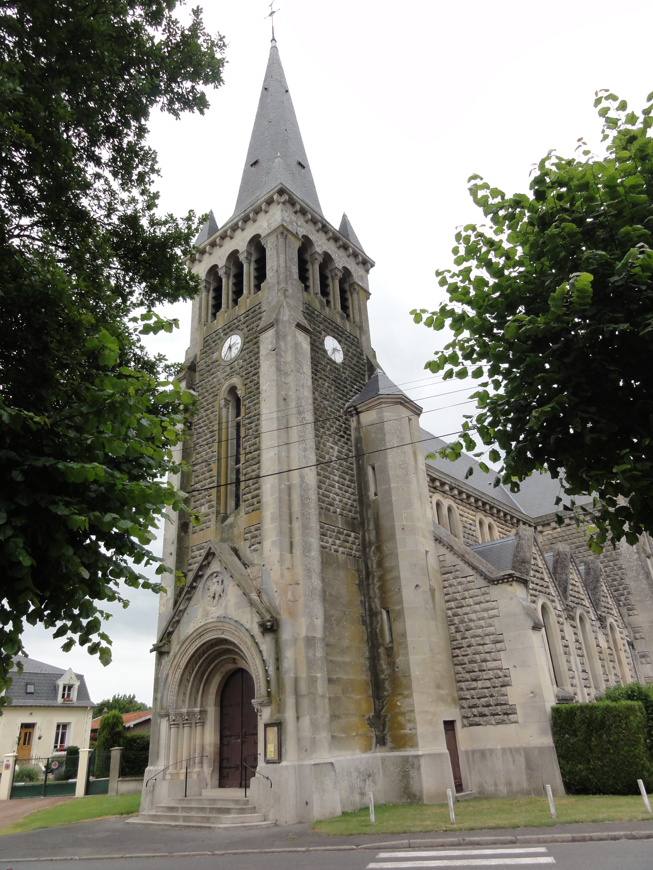 Bichancourt (Aisne) église